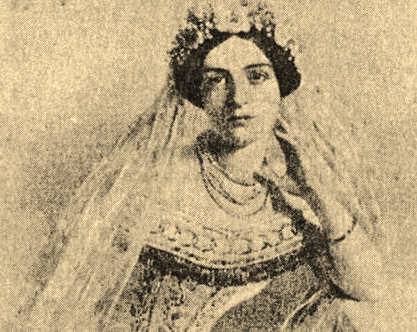 Coloraturo soprano Eliza (Ostinelli) Biscaccianti in costume for her bridal scene performance, Verdi's "Lucia di Lammermoor," c. 1852. (New York: Atwill, public domain image from the title page of period sheet music.)